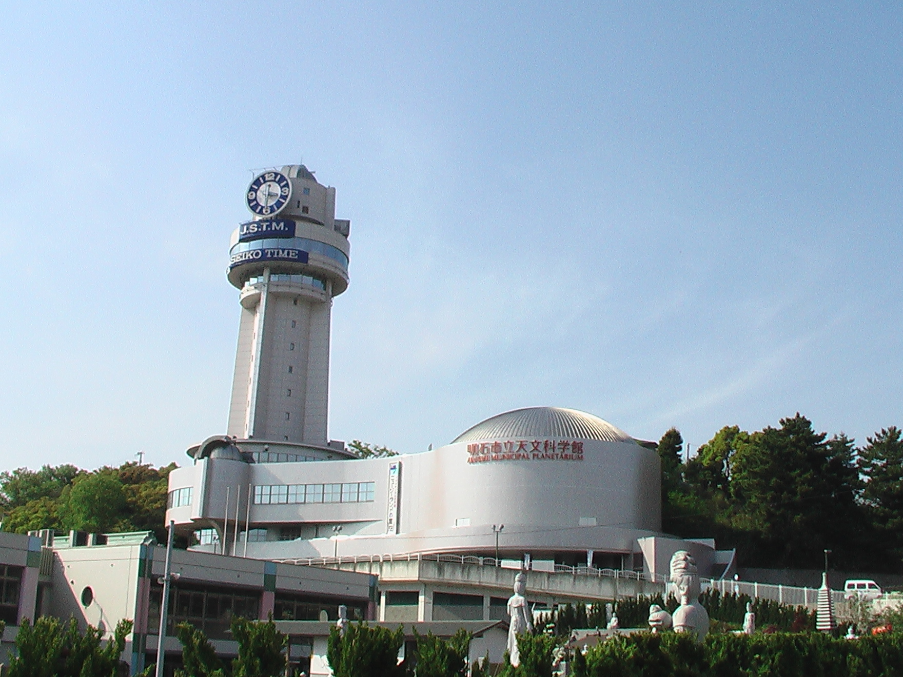 Akashi Minicipal Planetarium